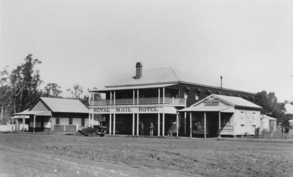 Royal Mail Hotel in Cooyar, ca. 1928. A butcher's shop is next door. (Description supplied with photograph.).